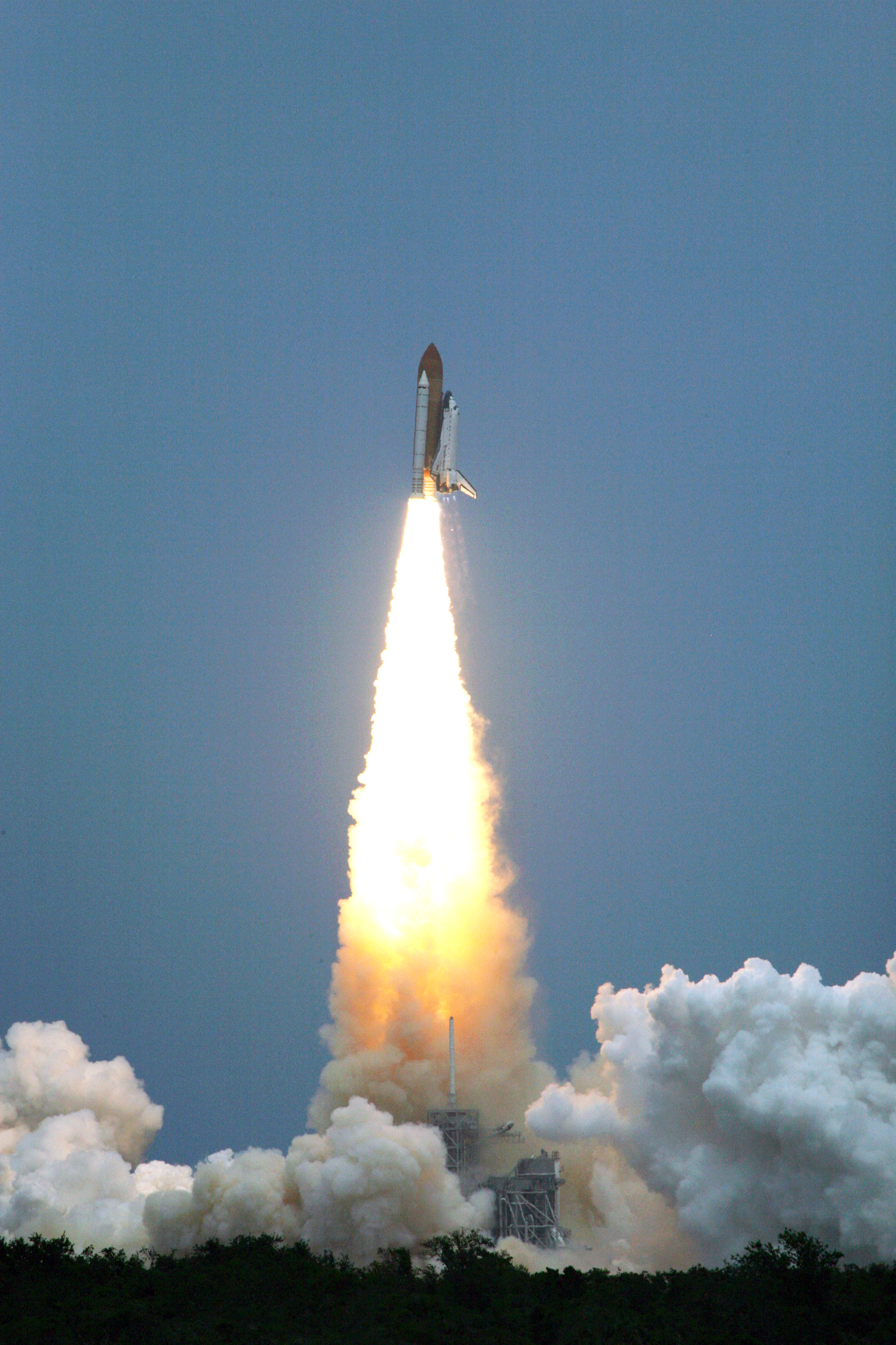 CAPE CANAVERAL, Fla. – Riding a column of fire, space shuttle Atlantis hurtles into the cloud-washed sky over NASA's Kennedy Space Center in Florida. Atlantis and its crew of seven will rendezvous with NASA's Hubble Space Telescope. The launch was on-time at 2:01 p.m. EDT. Atlantis' 11-day flight will include five spacewalks to refurbish and upgrade the telescope with state-of-the-art science instruments that will expand Hubble's capabilities and extend its operational lifespan through at least 2014. The payload includes a Wide Field Camera 3, fine guidance sensor and the Cosmic Origins Spectrograph. Launch of Atlantis on the STS-125 mission is scheduled for 2:01 p.m. May 11 EDT.